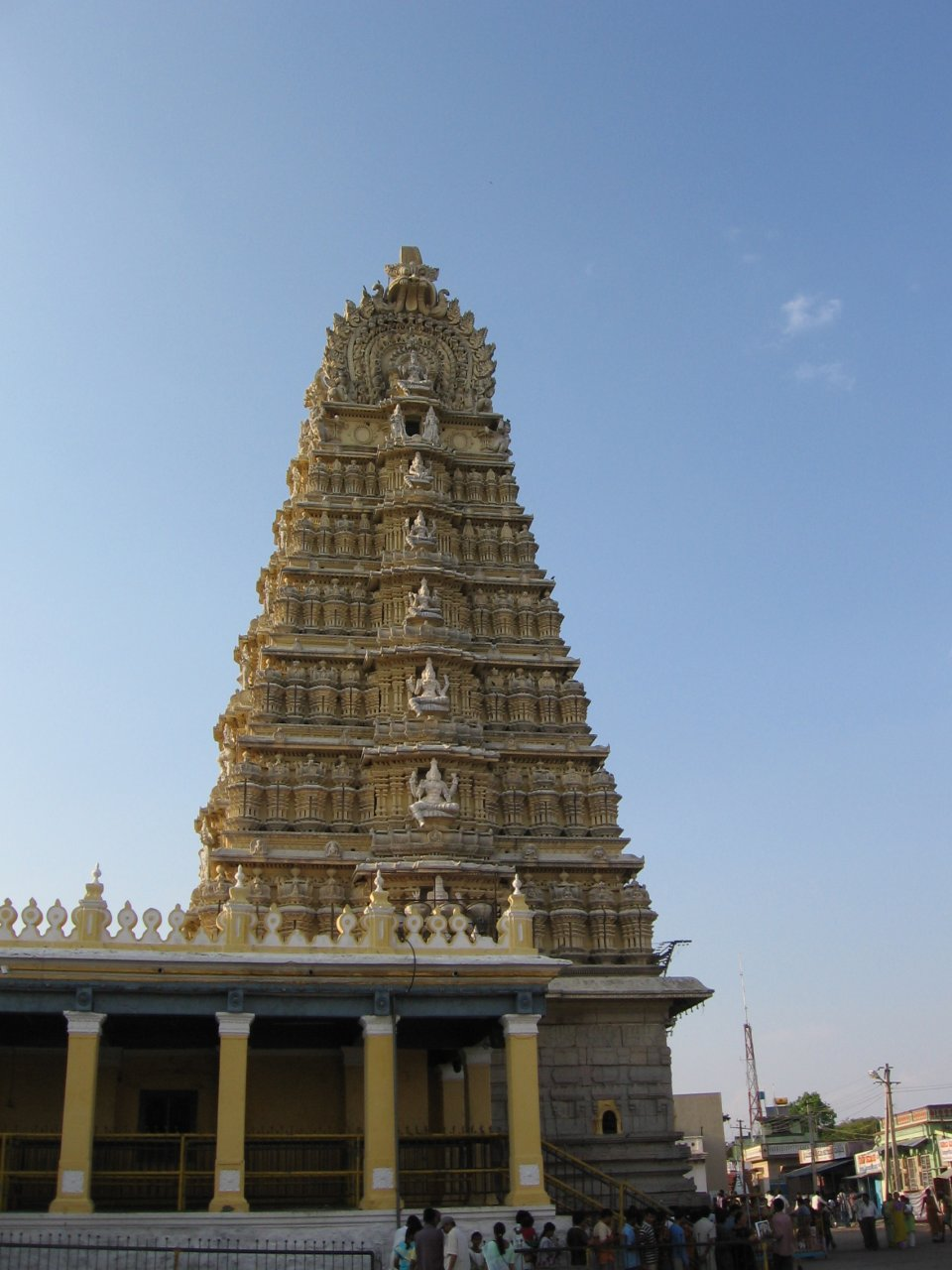 Chamundeswari Temple, Mysore.